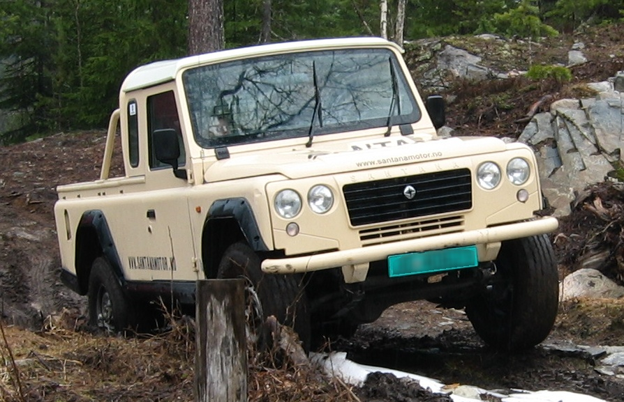 A Santana PS-10 pickup, probably a 2005 year model, in Lampeland, north of Kongsberg, Norway.